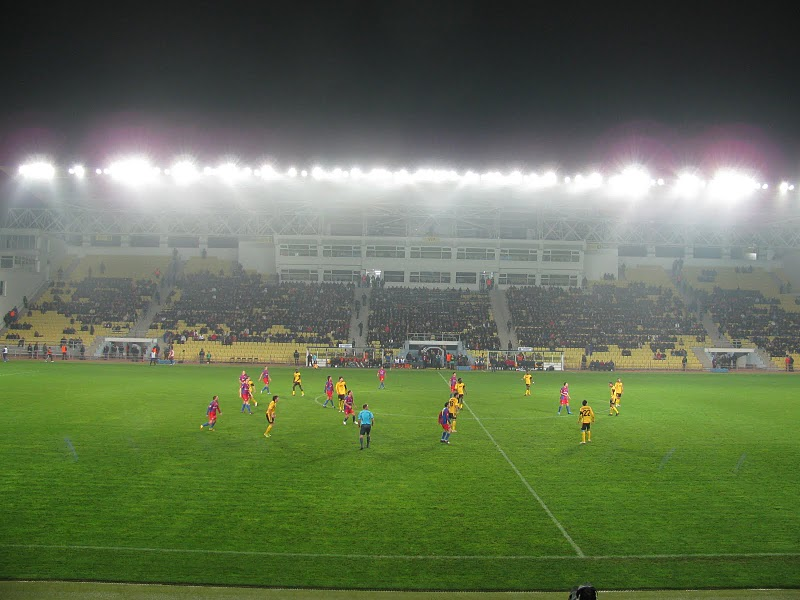 A photo made by meduring Sheriff-Steaua match. Andrei Anghelov (talk) 11:18, 18 June 2010 (UTC)